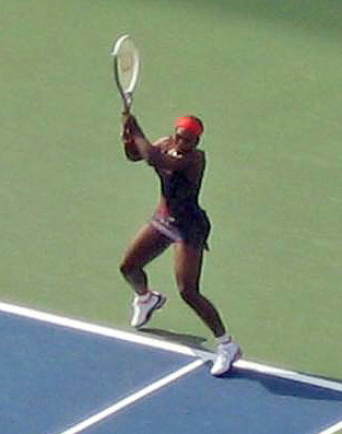 Serena Williams hitting a return in 2006.